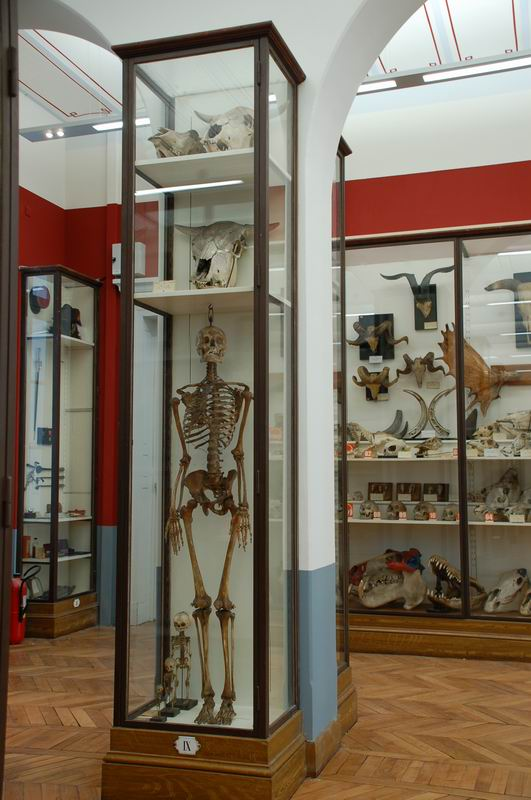 A human skeleton in the first room of the Fragonard Museum of the National Veterinary School of Alfort (France)